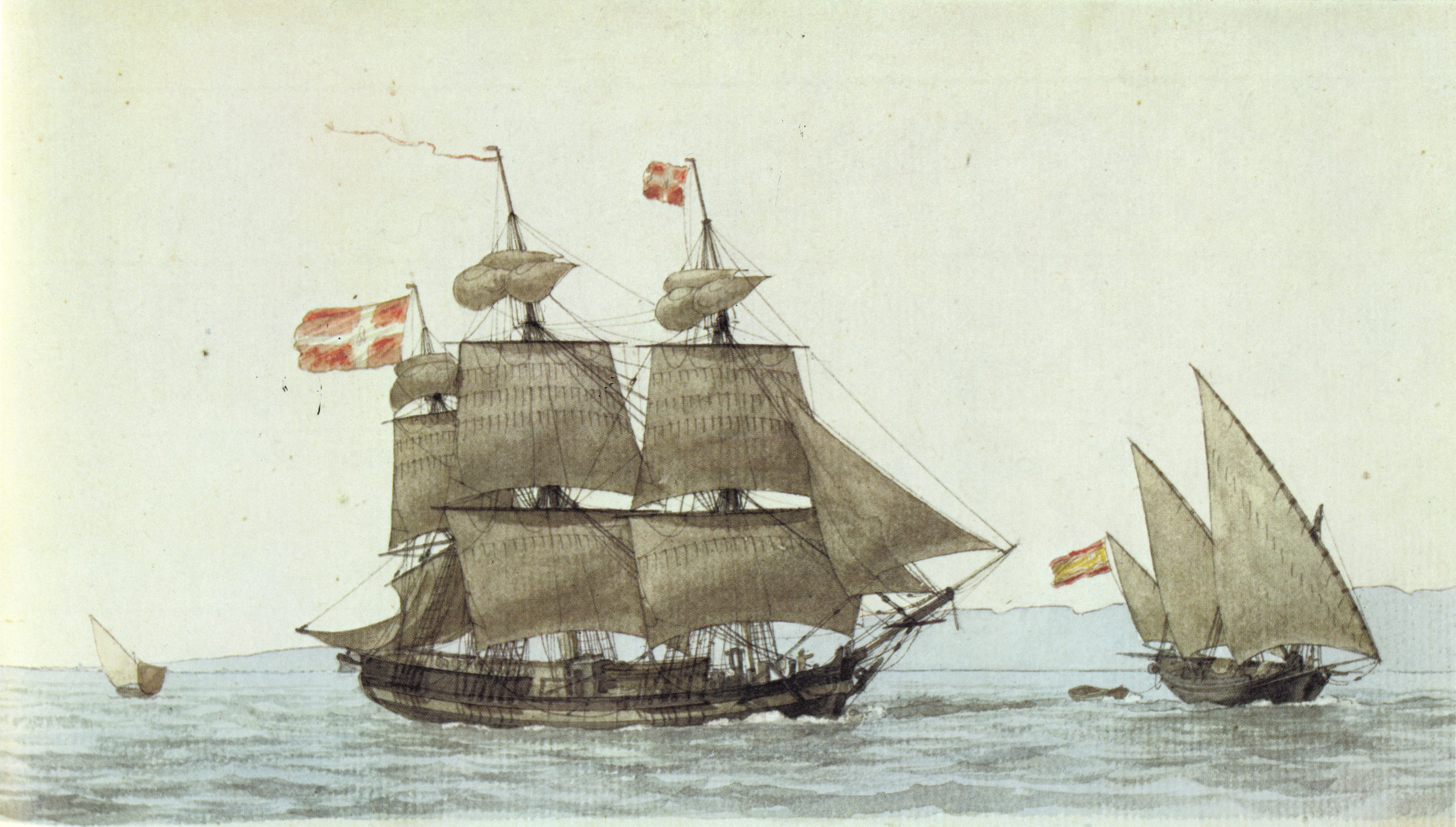 Danish three-masted ship and Spanish pink (right)